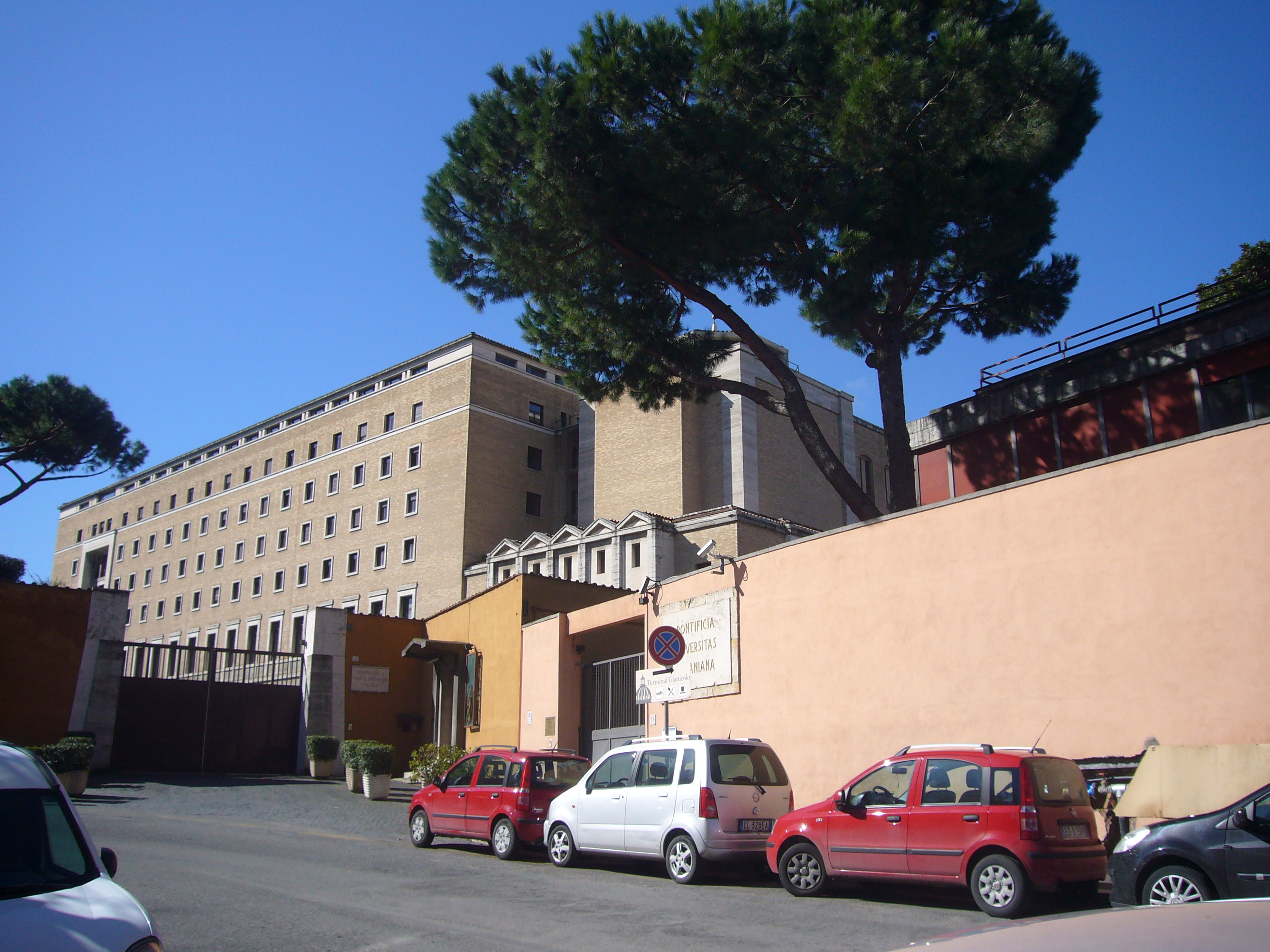 The Pontifical North American College and the entrance to the Pontifical Urbaniana University (both extraterritorial property of the Holy See) and the Gianicolo Hill in Rome, Italy.